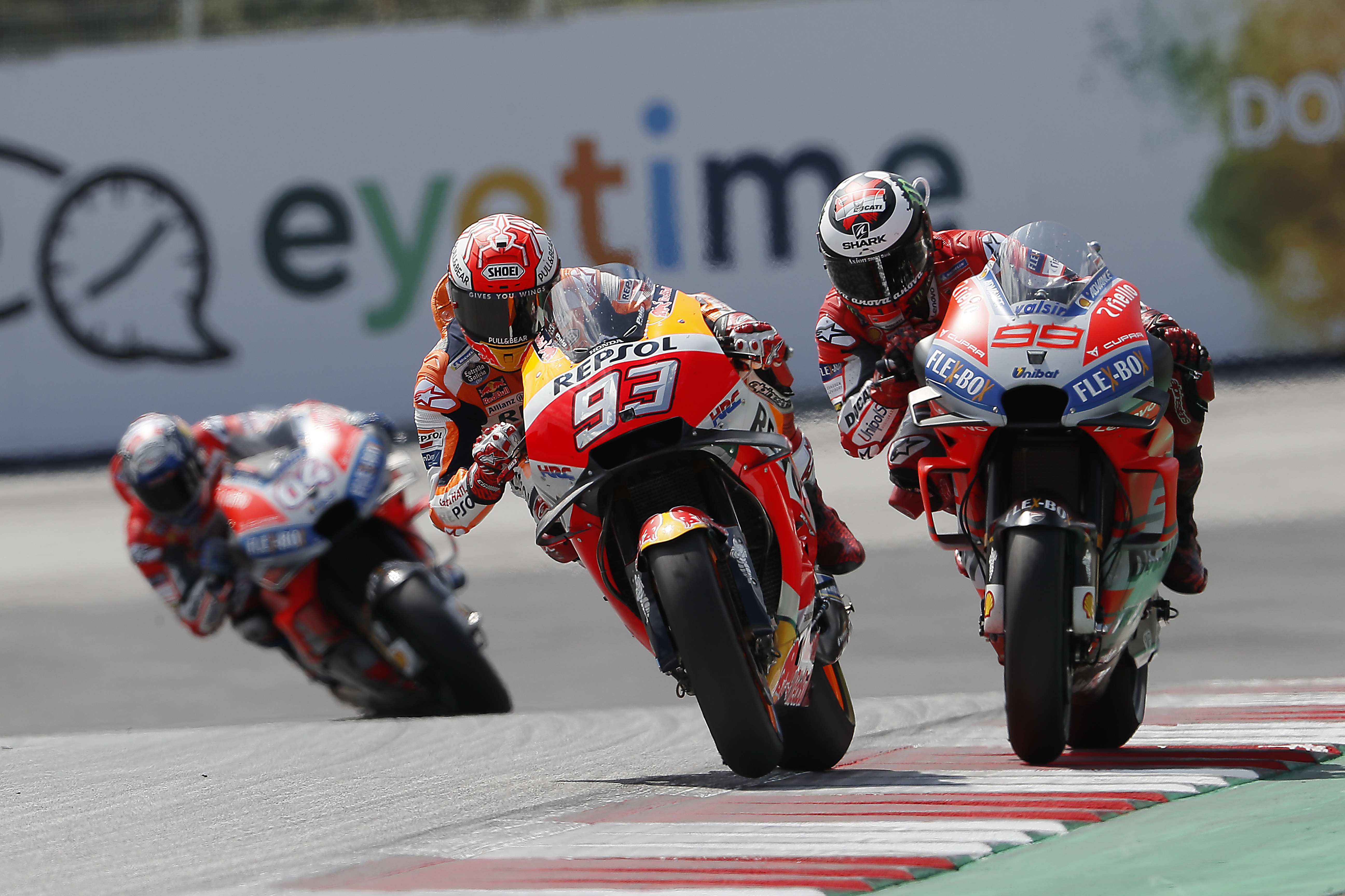 Marc Márquez, riding his Repsol Honda, battling with the Factory Ducati of Jorge Lorenzo, with in the back the other Factory Ducati of Andrea Dovizioso at the 2018 Austrian Grand Prix.